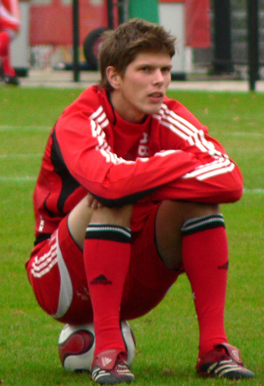 Klaas-Jan Huntelaar with Ajax.